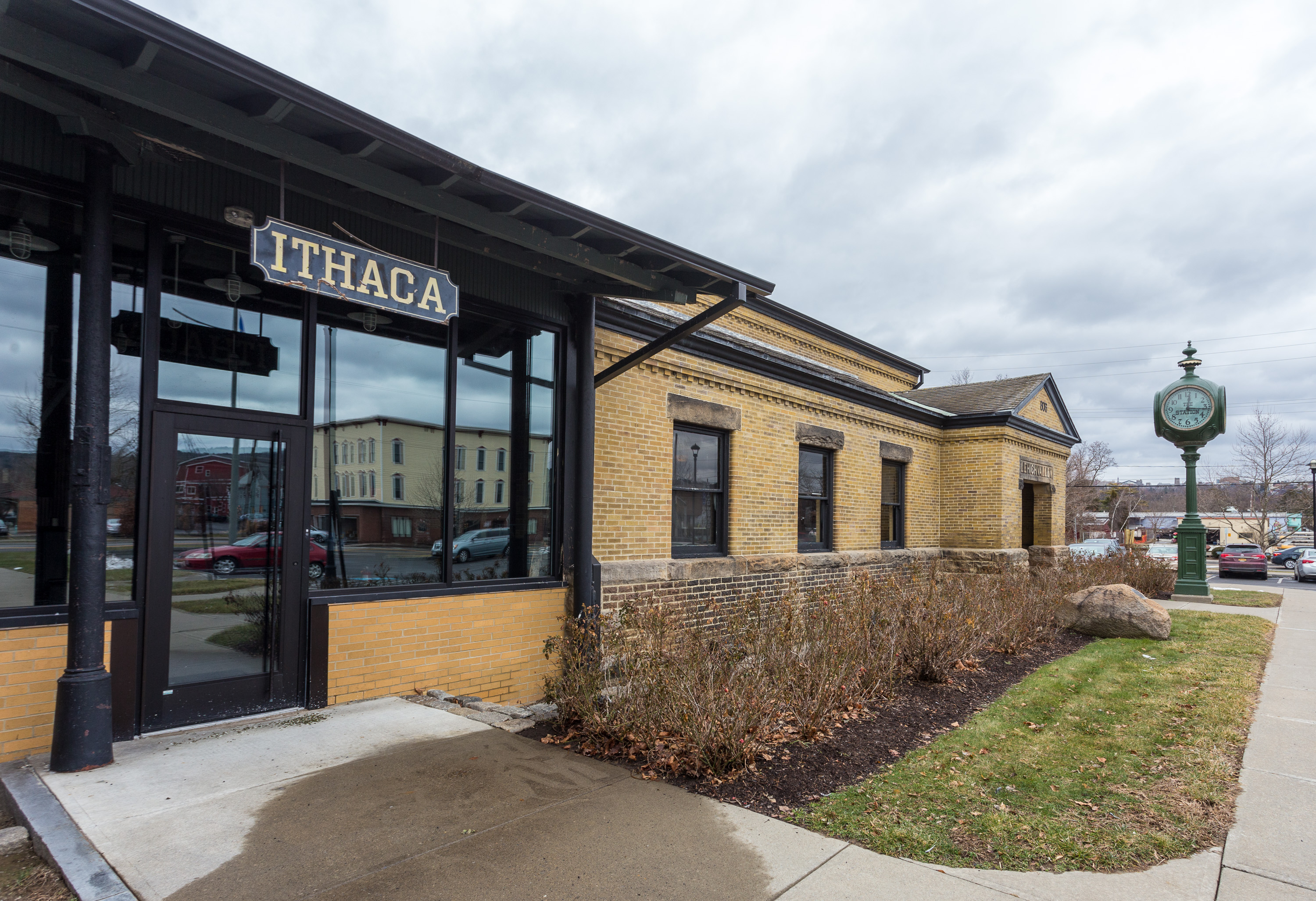 Former Lehigh Valley Railroad Station, Ithaca, New York. Built 1898.